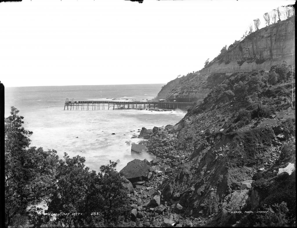 Format: Glass plate negative. Repository: Tyrrell Photographic Collection, Powerhouse Museum Part Of: Powerhouse Museum Collection General information about the Powerhouse Museum Collection is available at Persistent URL